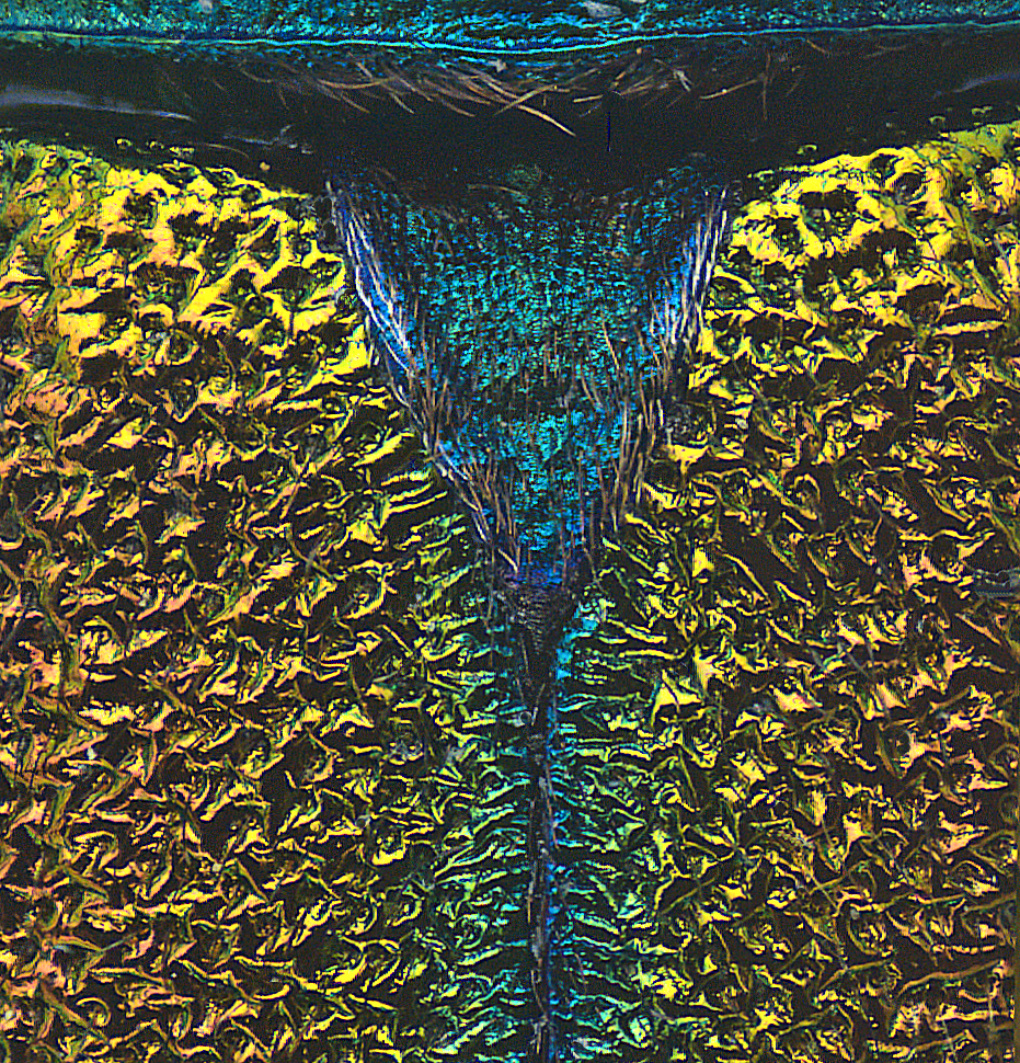 Family: Cerambycidae Photo: U.Schmidt, 2016